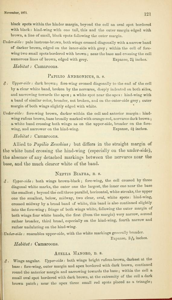 EntomologistsMonMag1870Ward Description